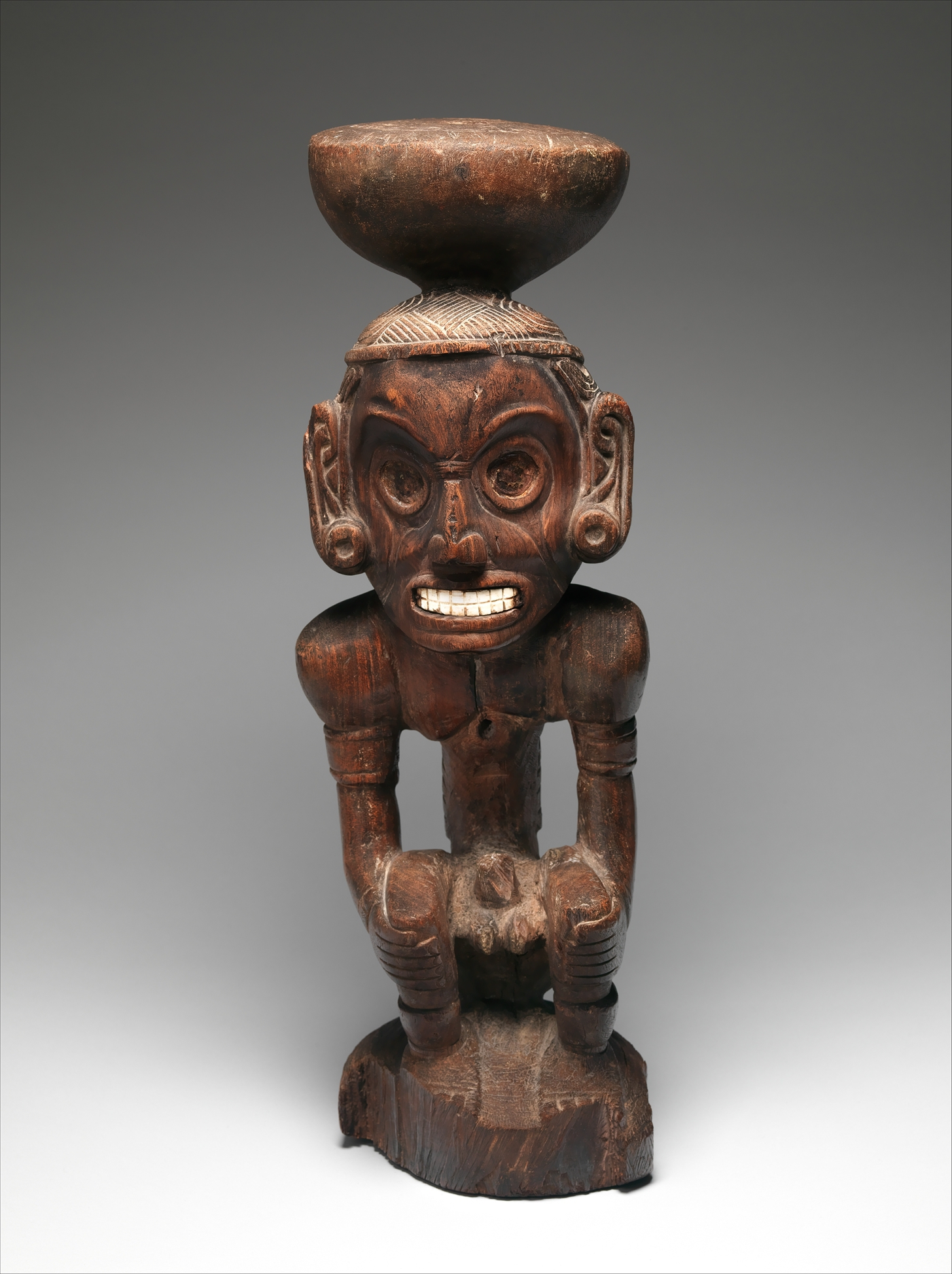 Taíno; Figure; Wood-Sculpture